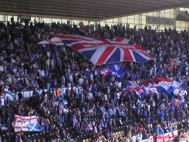 During half time at a match